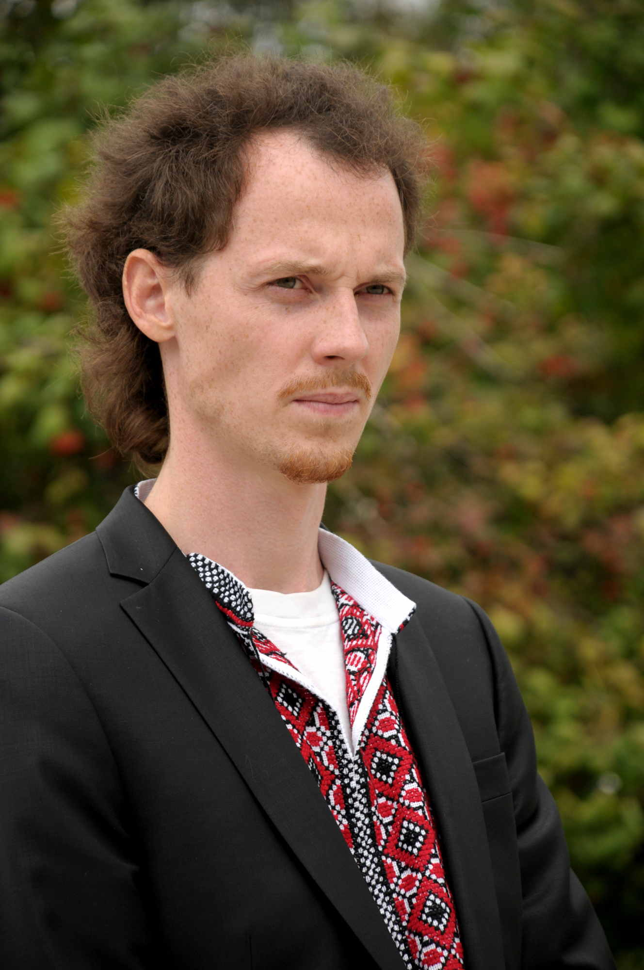 Serhiy Vasyliuk, Ukrainian musician, member of Tin Sontsya band